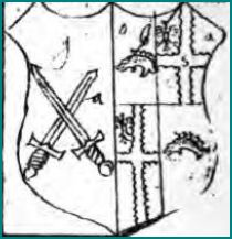 A drawing of a shield of arms from the ceiling of Old St Paul's Cathedral, London. The arms are those of Richard Fitzjames, Bishop of London 1506 - 1522.